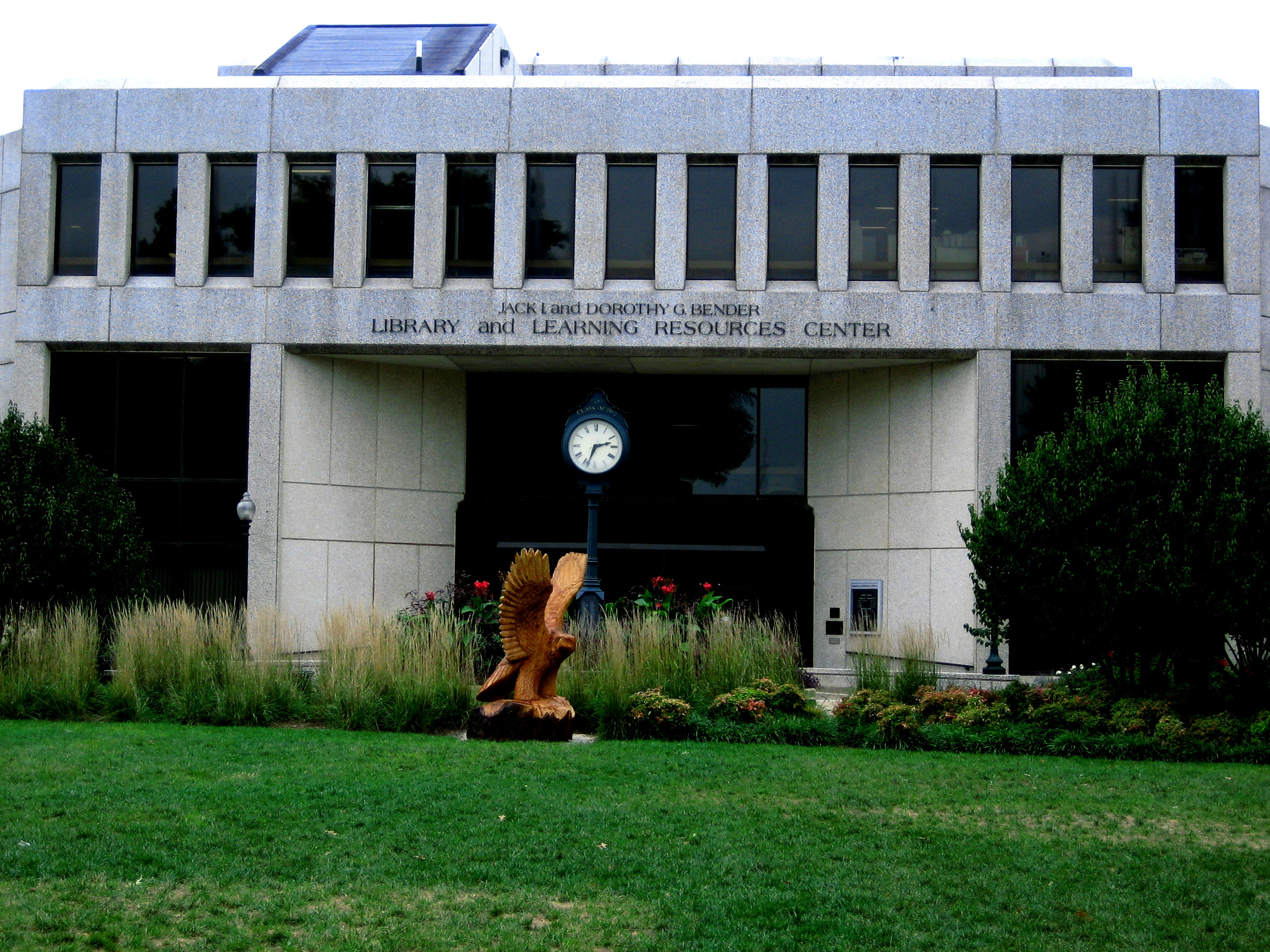 I took this picture of the American University's Library on Sept. 4th, 2006.